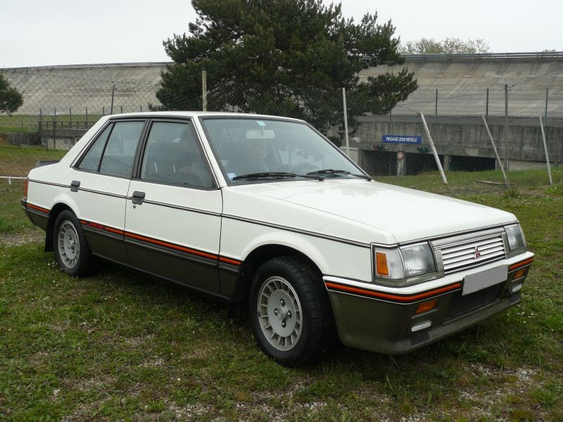 Mitsubishi Lancer EX 2000 Turbo, photographed at Autodrome de Linas-Montlhéry, France